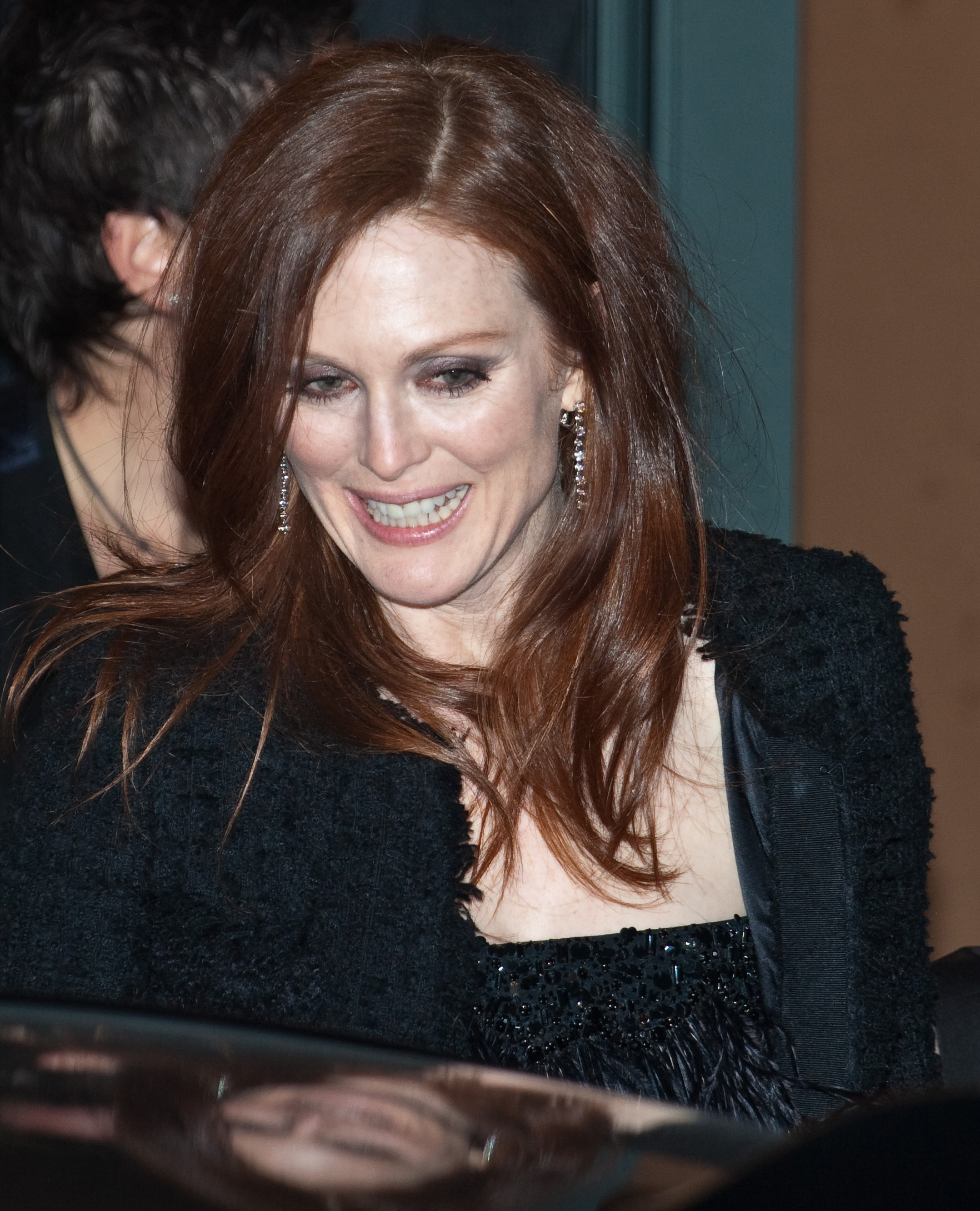 Julianne Moore leaving the premiere of the movie THE KIDS ARE ALL RIGHT at the 2010 Berlinale